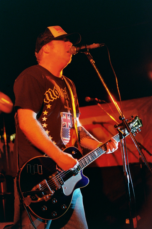 Singer/guitarist Dave Smalley performing with Down By Law May 17, 2009 at Legends in Argentina.